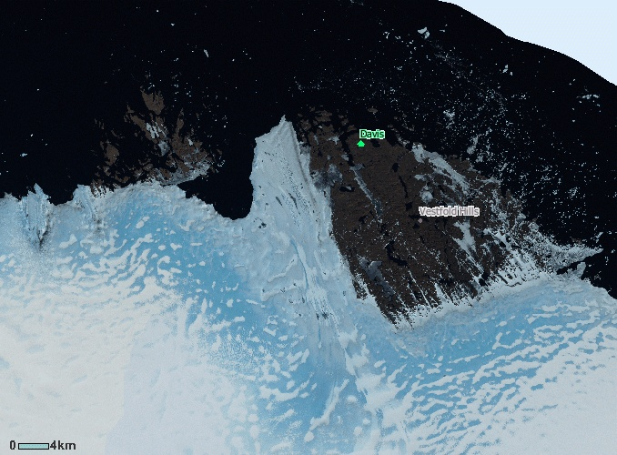 NASA Landsat image of the Sorsdal glacier region in Antarctica.